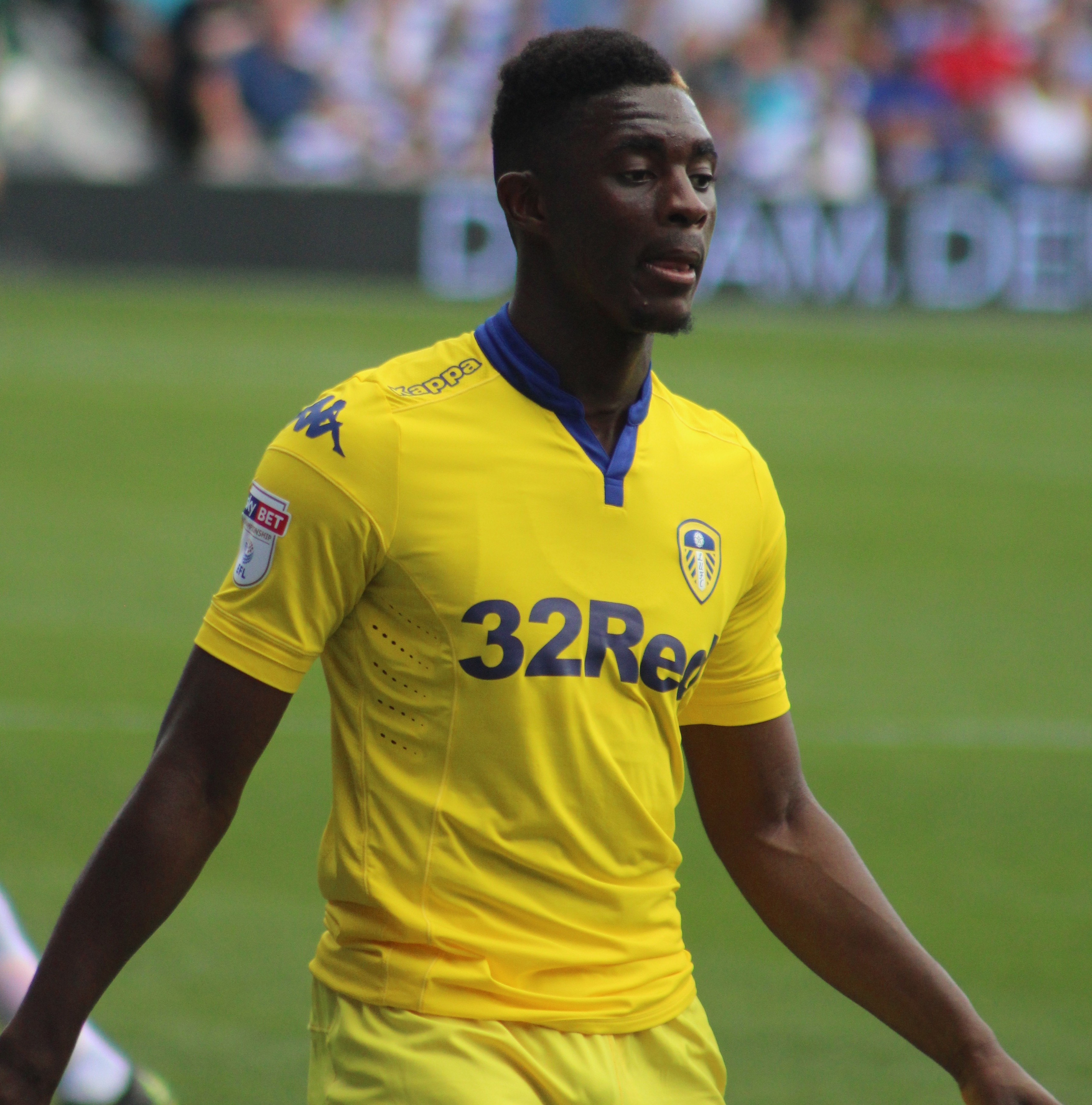 sack